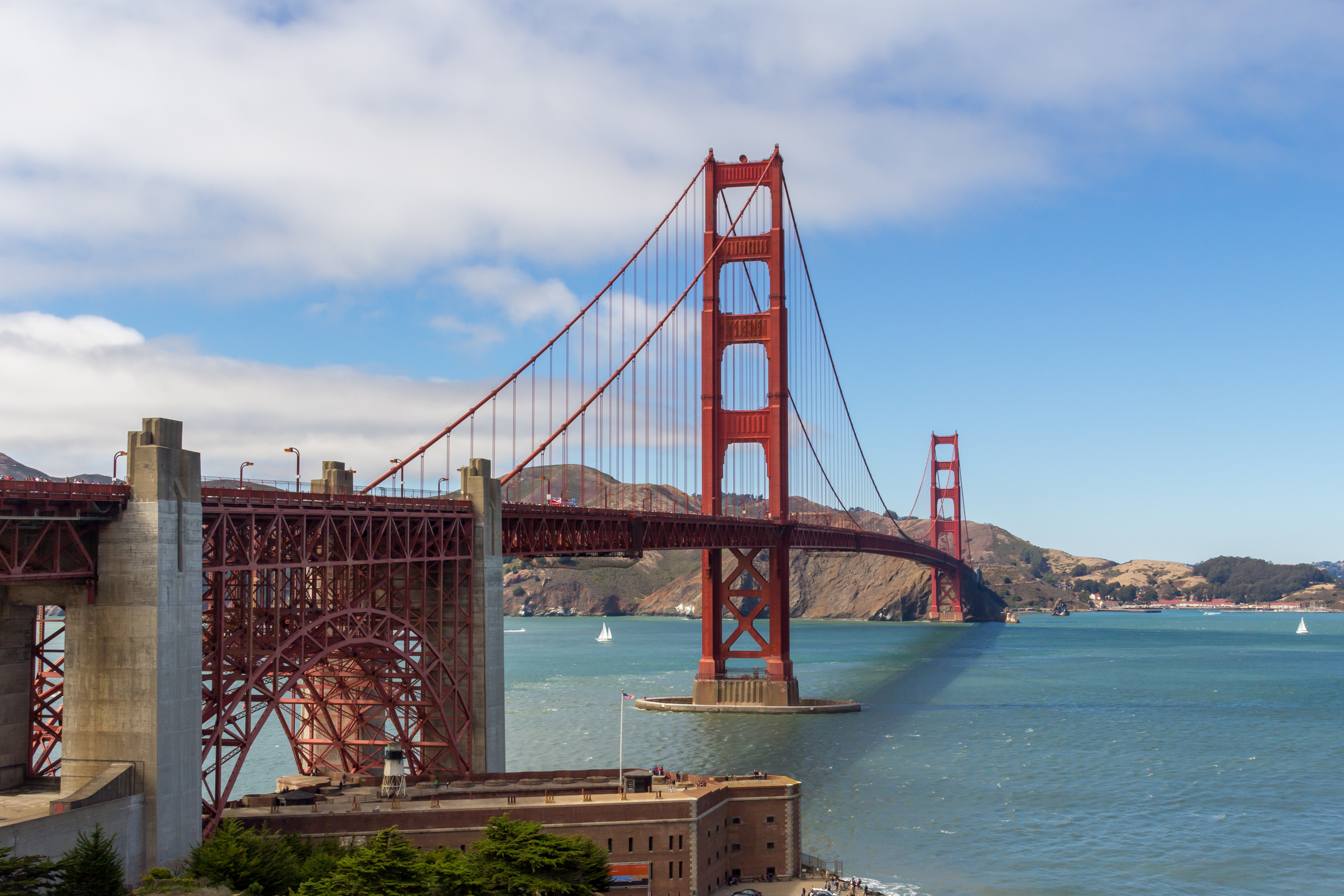 Golden Gate Bridge, San Francisco.